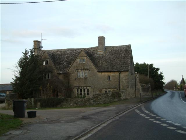 Floreys Farmhouse, Brighthampton, Oxfordshire